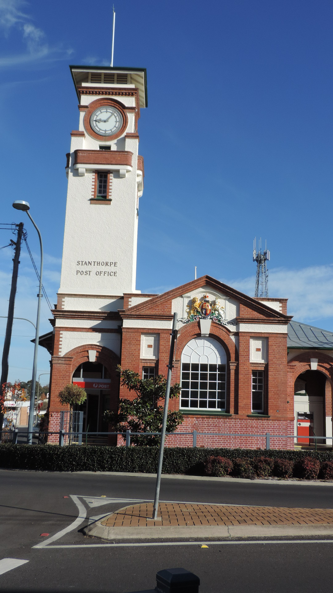 Stanthorpe Post Office, north-west corner Maryland and Railway Streets, Stanthorpe, 2015